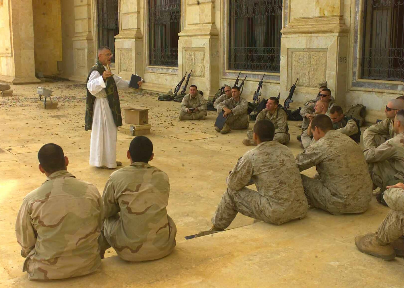 Central Command Area of Responsibility (Apr. 19, 2003) -- Father Bill Devine, the 7th Marines' Regiment Chaplain, speaks to U.S. Marines assigned to the 5th Marine Regiment during Catholic Mass at one of Saddam Hussein's palaces in Tikrit, Iraq.